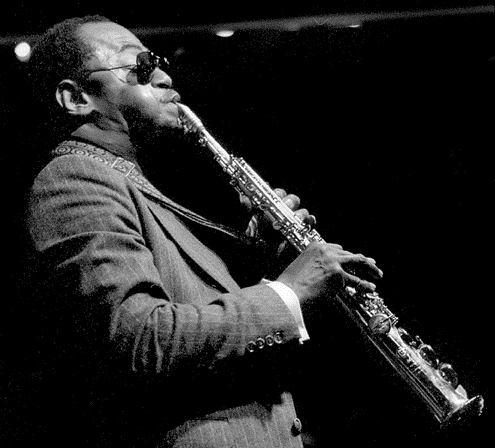 Archie Shepp at Keystone Korner, San Francisco, August 19, 1982. Photo by Brian McMillen /